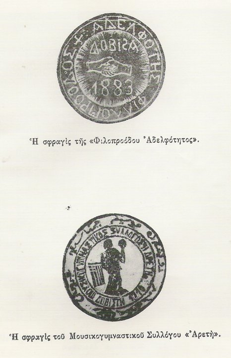 The seals of two of the societies that were founded in Dovista during the last years of Ottoman rule: "Φιλοπρόοδος Αδελφότης Δοβίστα" -Progressive Fraternity Dovista, 1883 and "Μουσικογυμναστικός Σύλλογος Αρετή" -Music and Gymnastics Society Areti (Virtue), 1910